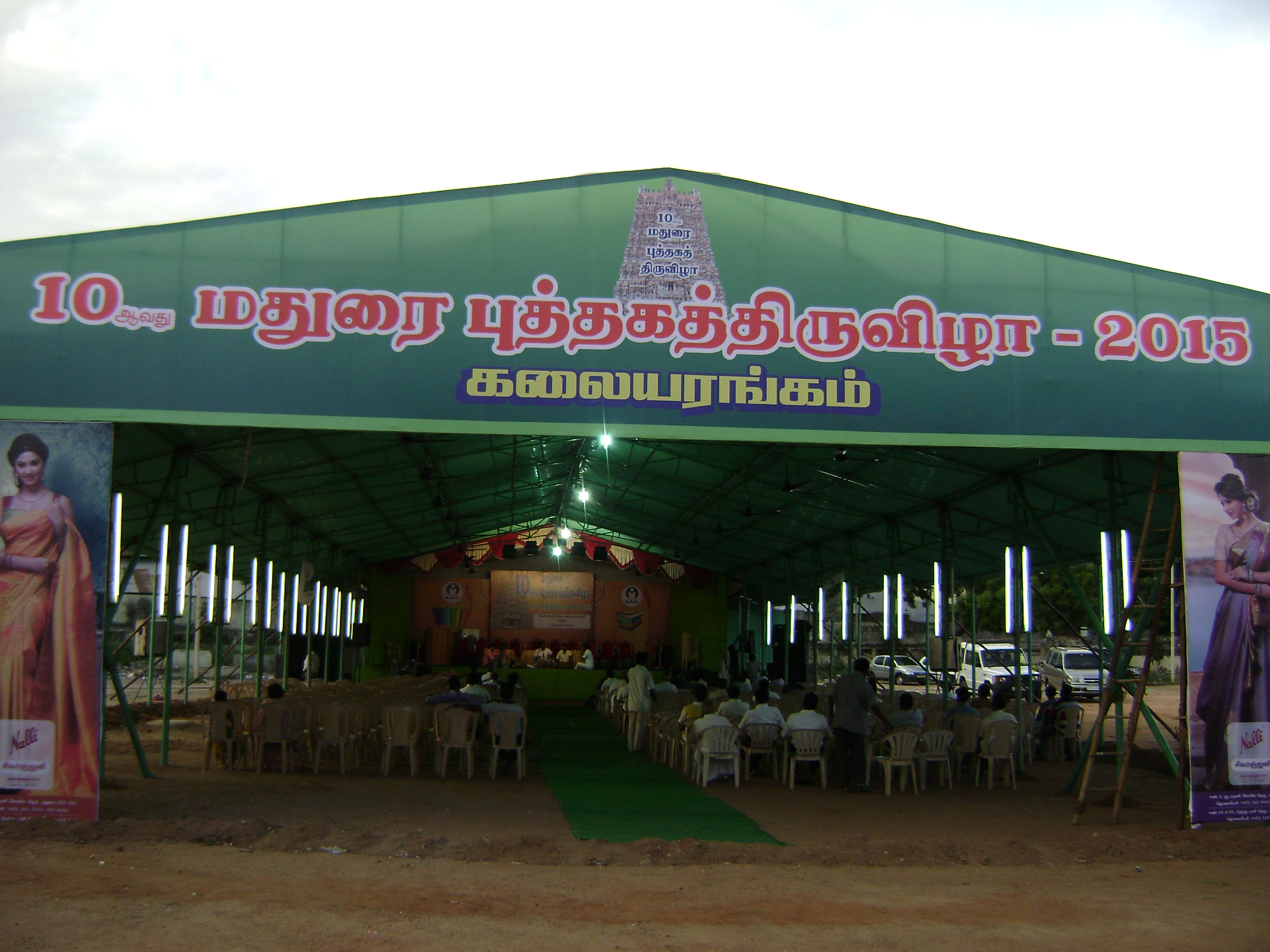 Auditorium at 10th Book Fair at Madurai 28 August 2015 - 7 September 2015